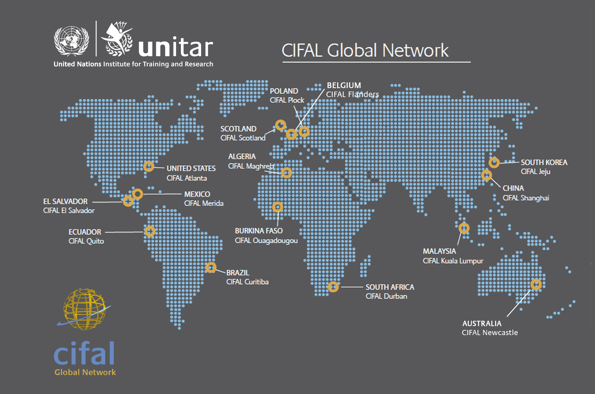 CIFAL Global Network Outreach